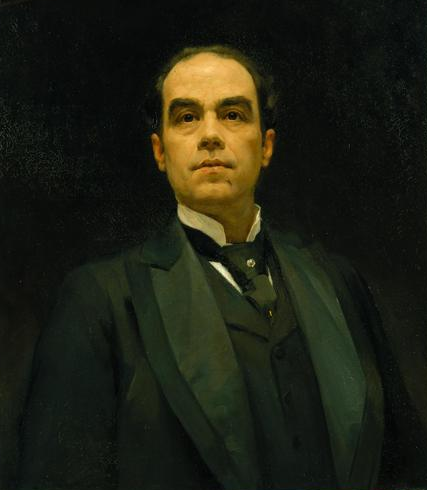 António Cândido Ribeiro da Costa (1850-1922), member of His Most Faithful Majesty's Council.